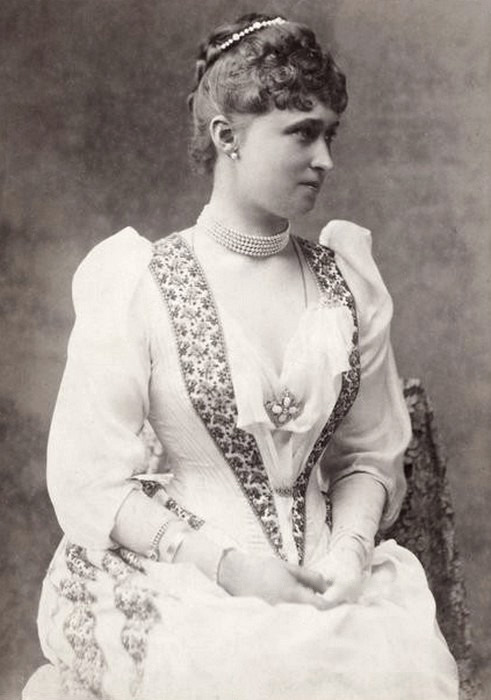 Princess Irene of Hesse, later Princess of Prussia